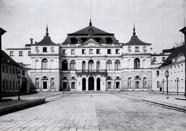 Bruhl Palace in Warsaw. Destroyed in WW2.